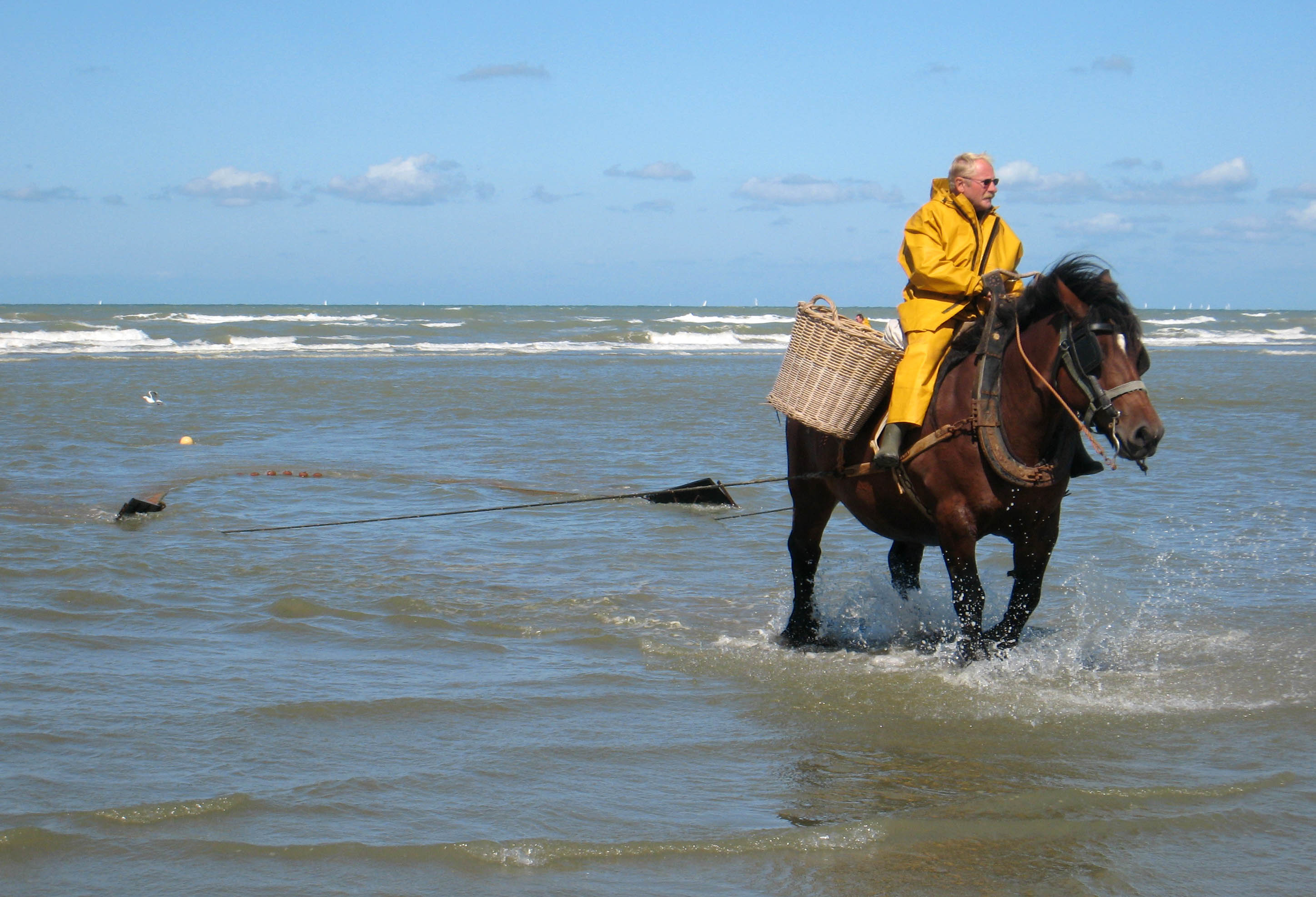 Shrimp-fisherman on horseback, Oostduinkerke